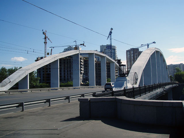 Horoshevskij bridge